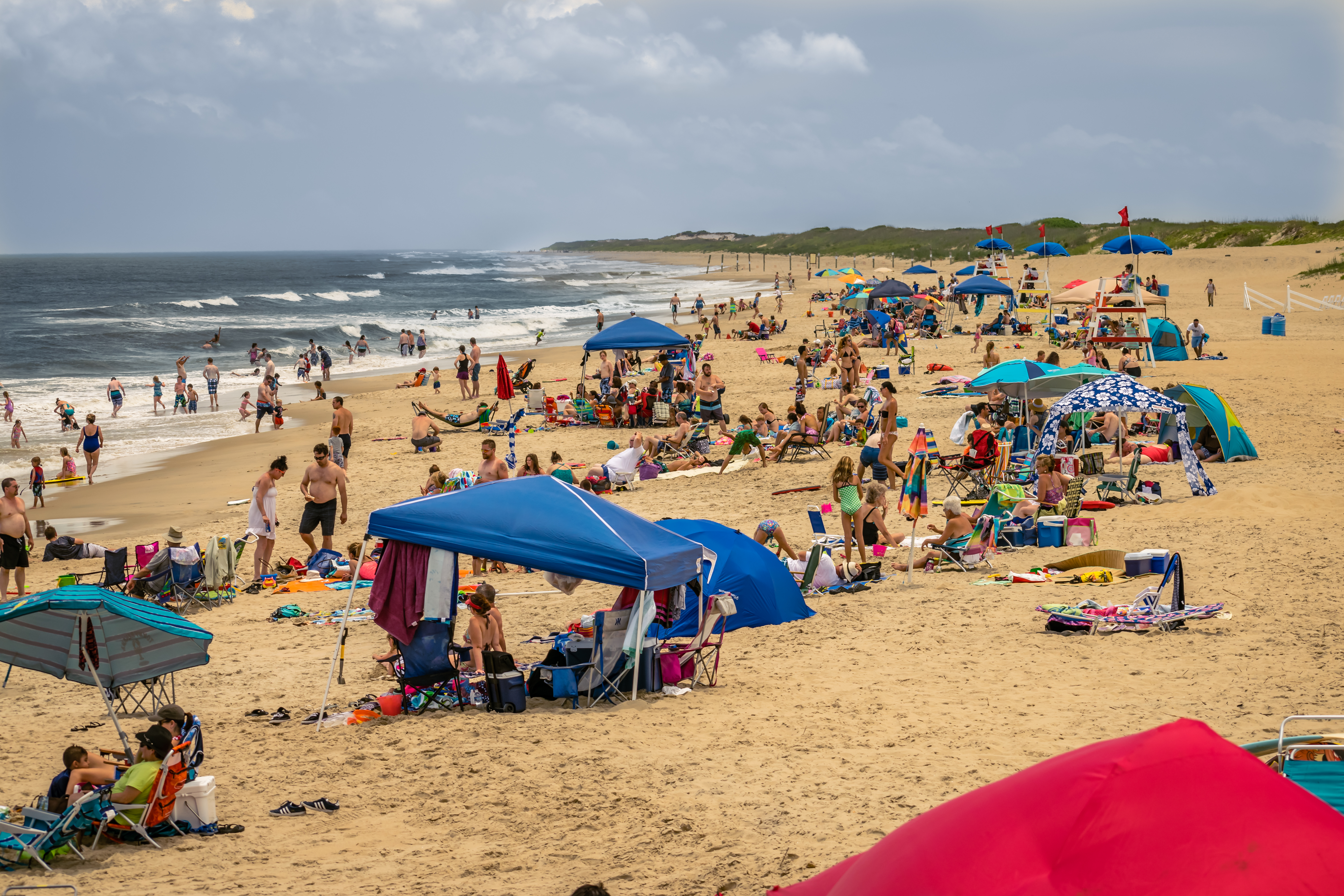 Little Island Park beach looking south as seen from the fishing pier, Virginia Beach, Virginia.